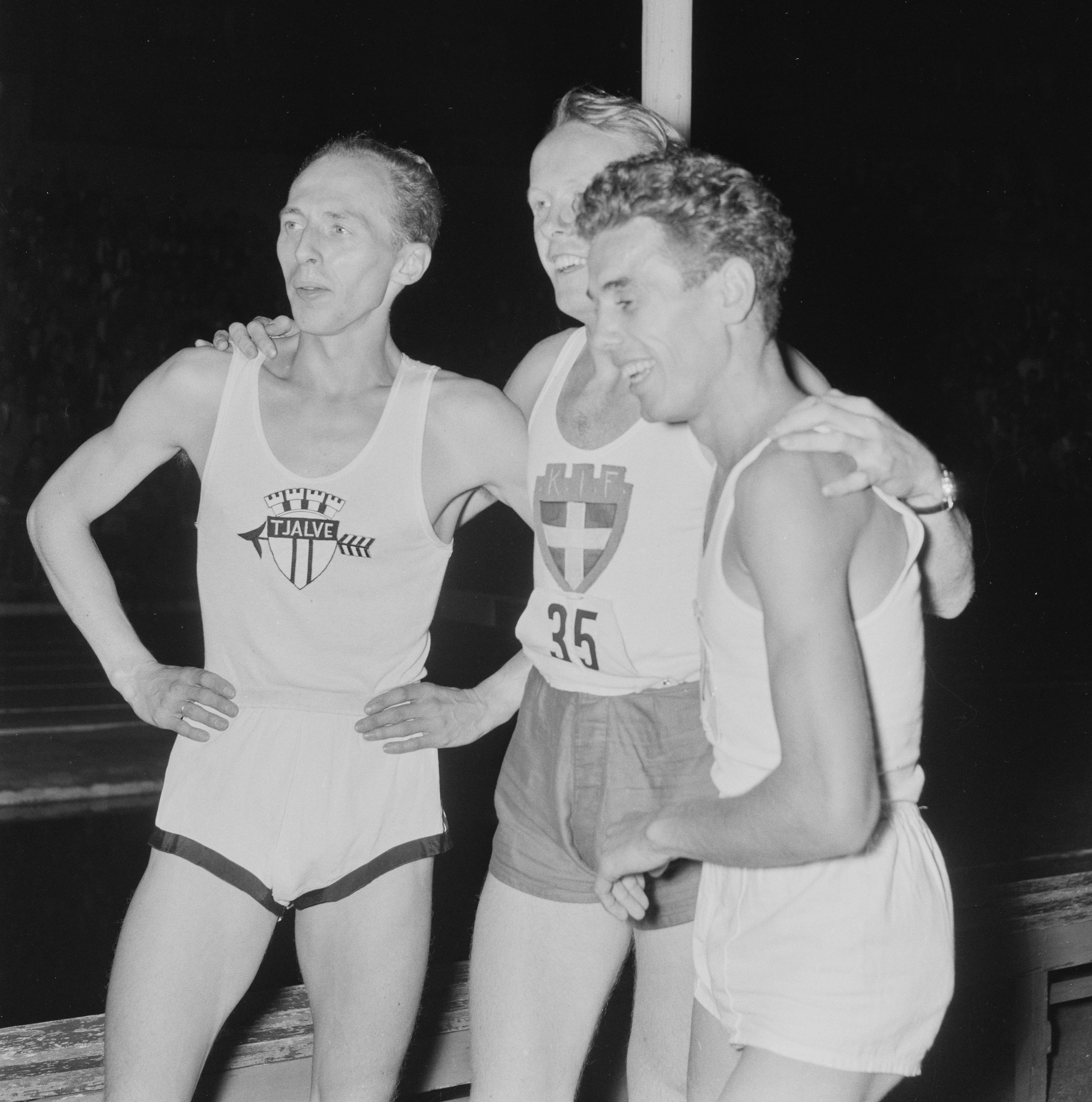 Audun Boysen, Gunnar Nielsen and László Tábori at Bislett, Oslo. Image must be from 1955 (Tabori didn't participate in 1953, but won in 1955 after photo finish againt Nielsen, File:Friidrett,_Bislet_-_L0020_342Fo30141605030042.jpg